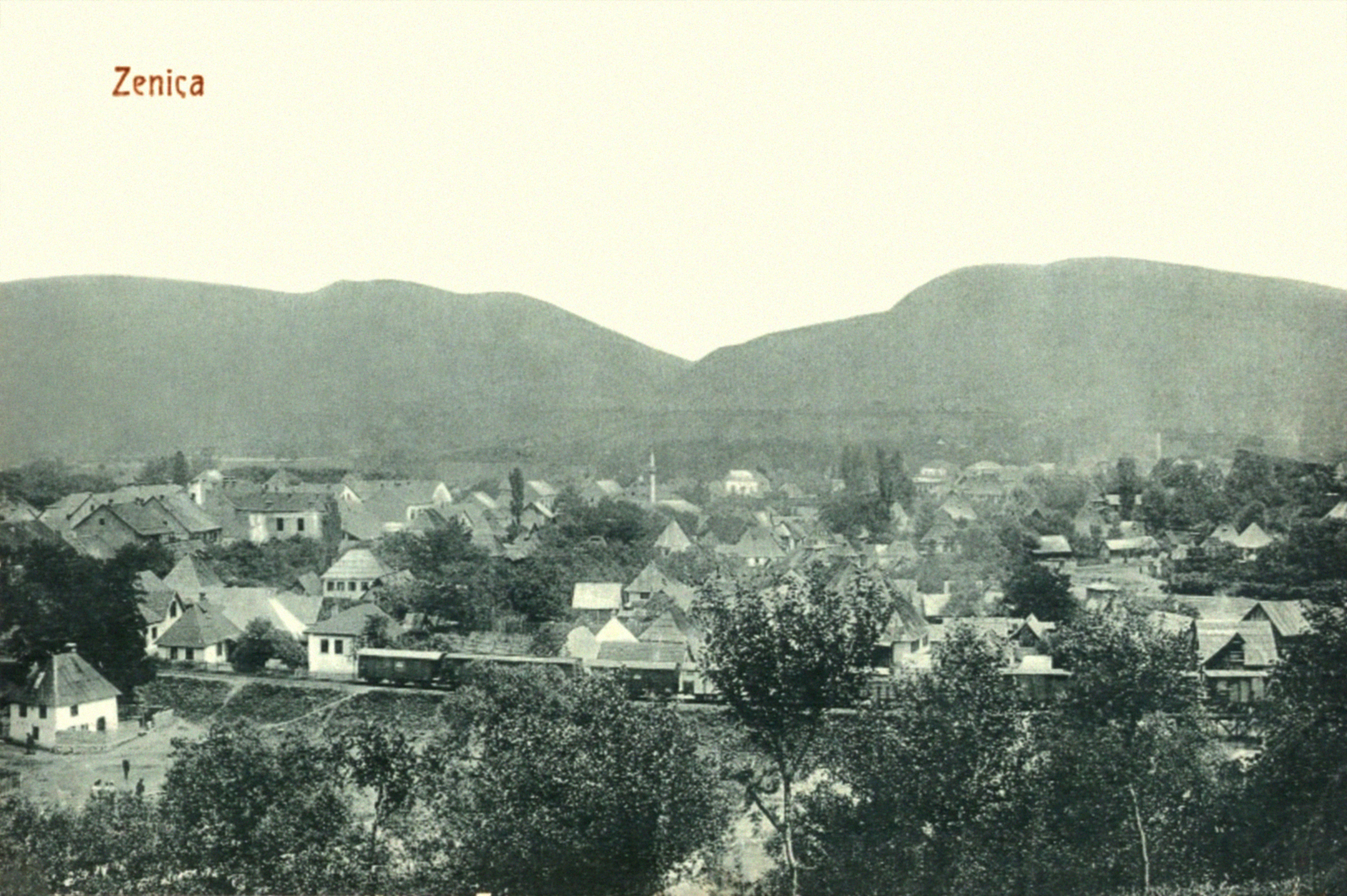 A narrow-gauge railway train in Zenica during the Austro-Hungarian rule in Bosnia and Herzegovina